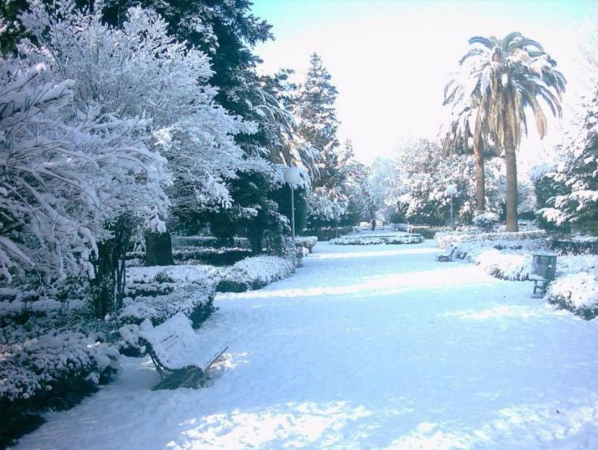 P.canariensis covered in snow in public garden in Hervás, Cáceres, Central Spain